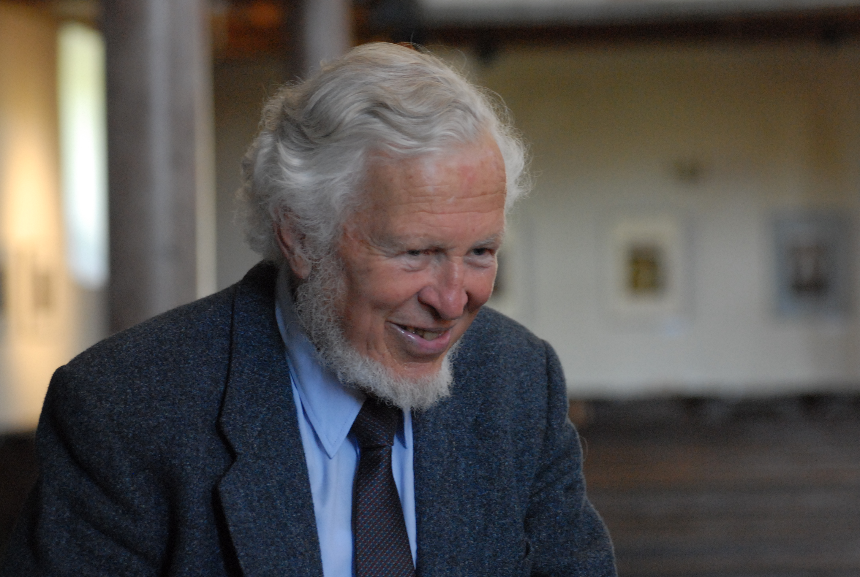 Hermanfrid Schubart in Regensburg